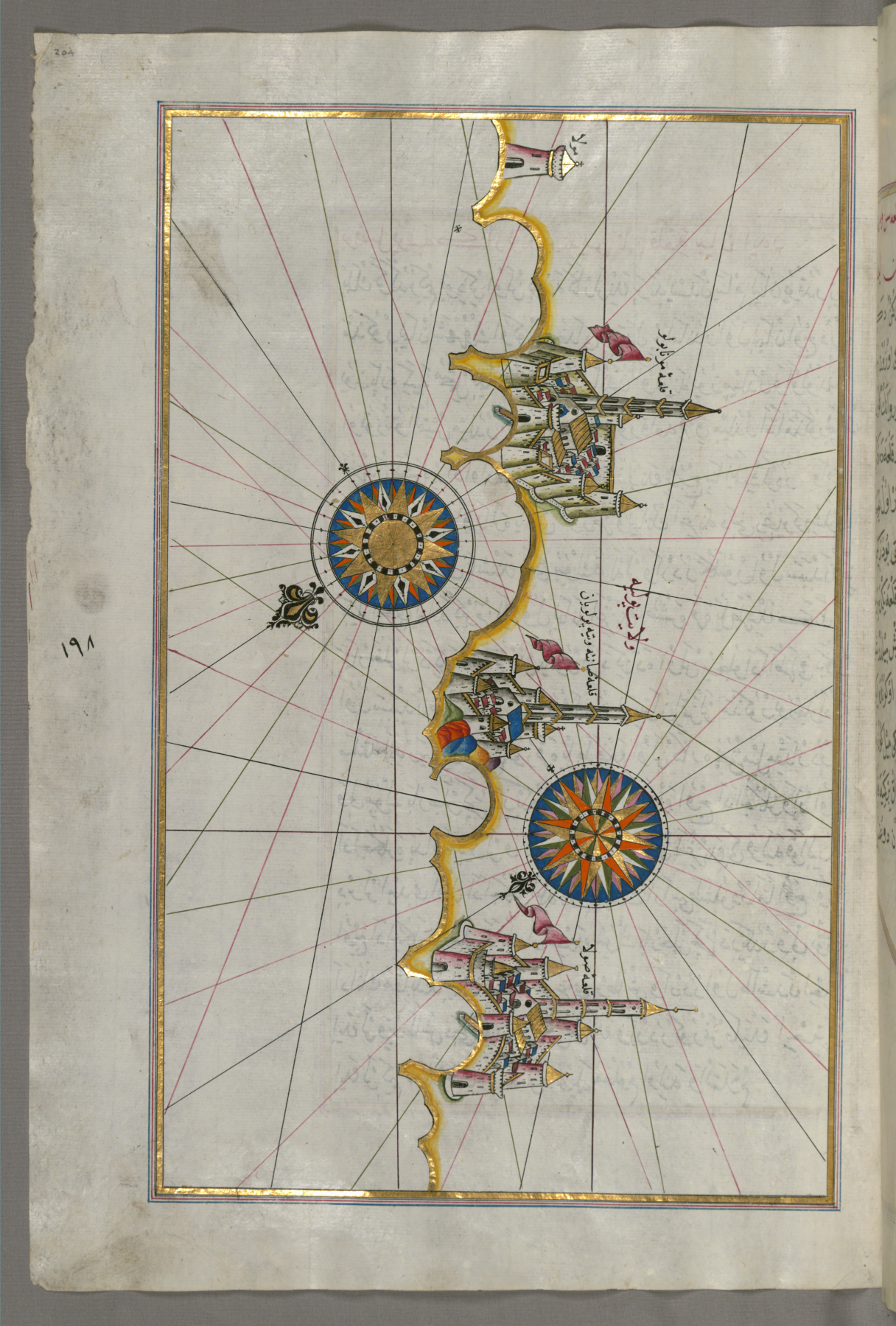 This folio from Walters manuscript W.658 contains a map of the Italian coast around Monopoli (Munabulu), south of Bari.